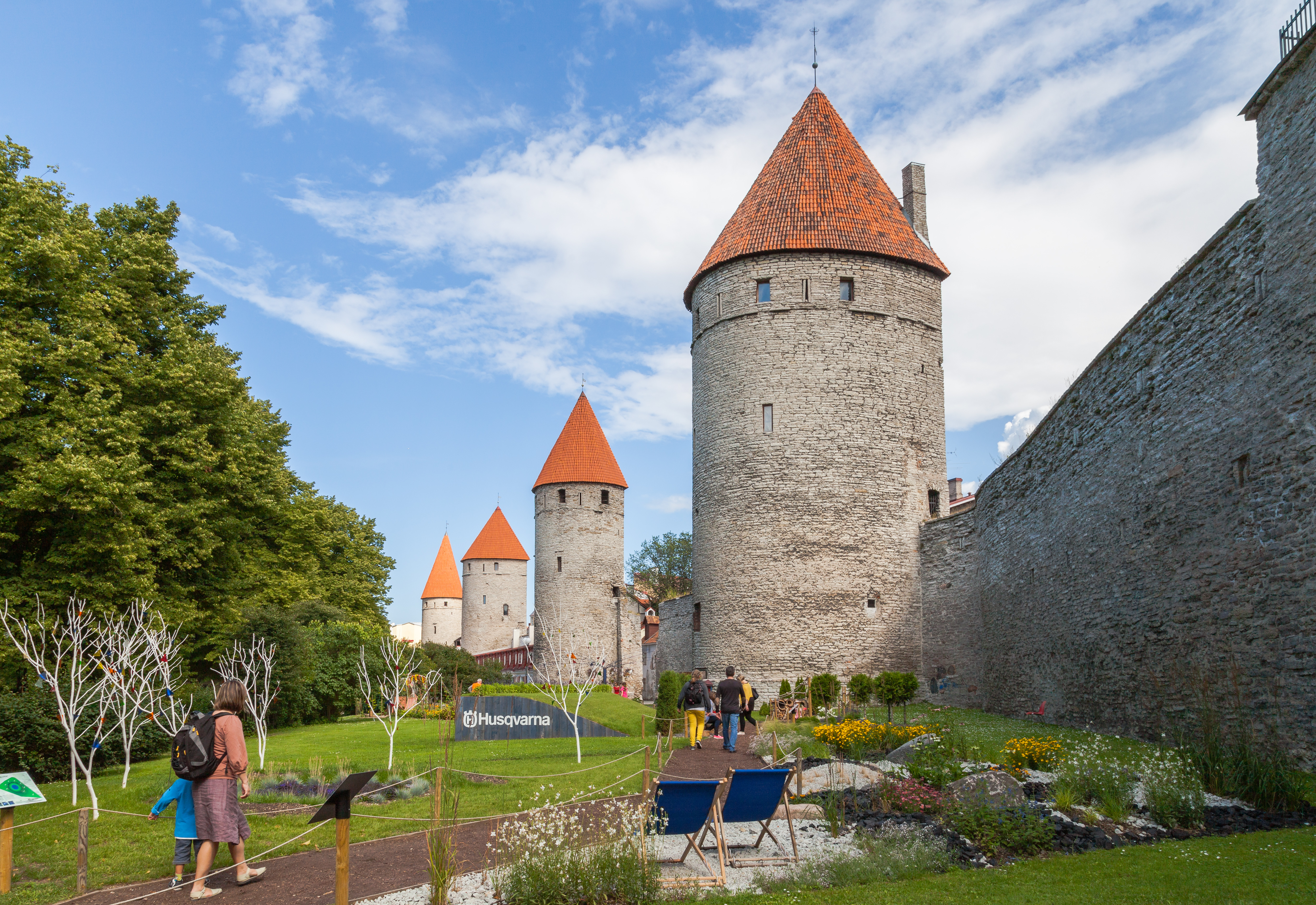 Walls of the old city of Tallinn, Estonia